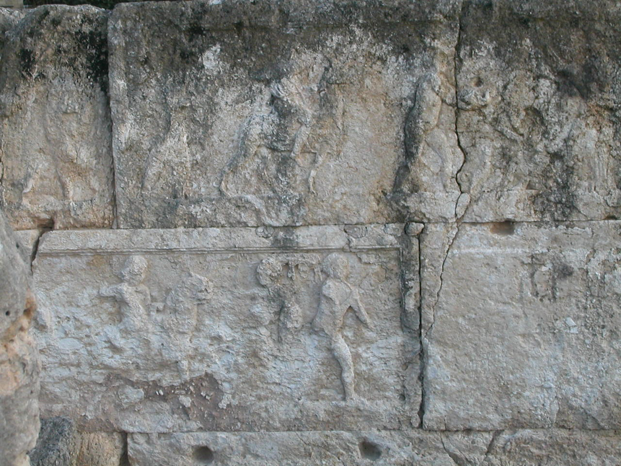 Echmoun 1